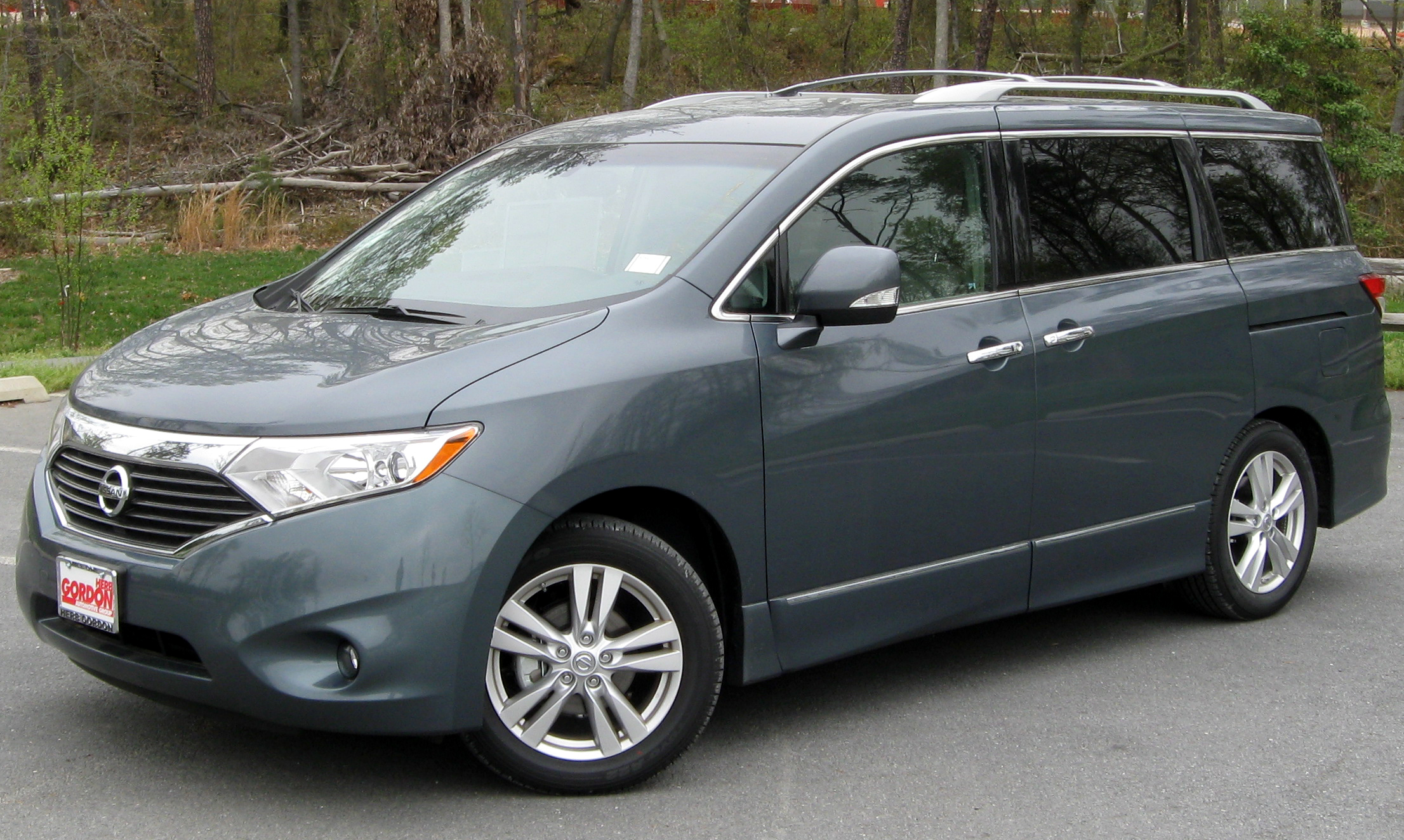 2011 Nissan Quest photographed in Silver Spring, Maryland, USA.